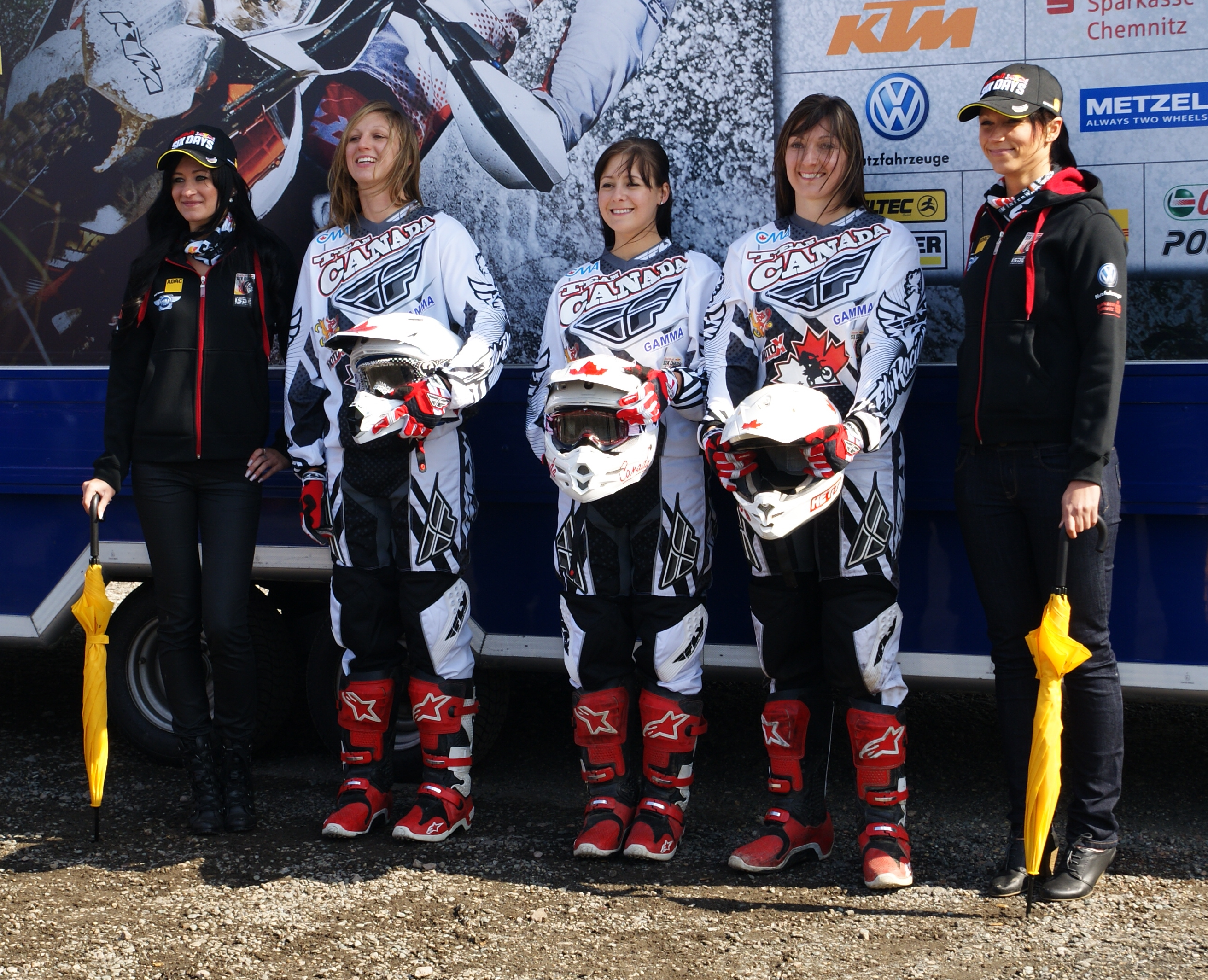 The making of this document was supported by the Community-Budget of Wikimedia Germany. 87. ISDE Saxony 2012 Womens Team Canada (Almeda Rive, Amber Rae Giroux, Victoria Hett)